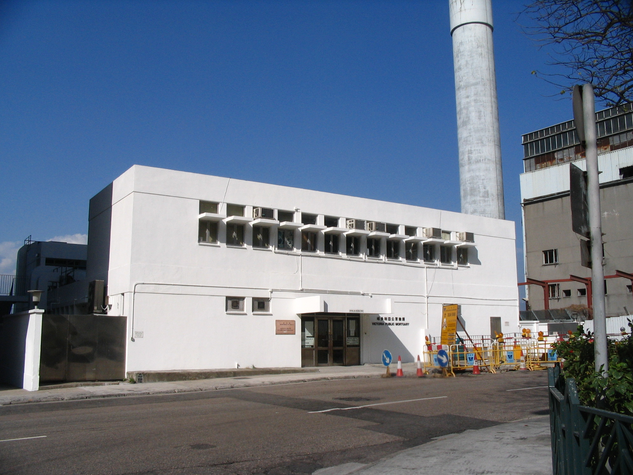 Photo of Victoria Public Mortuary